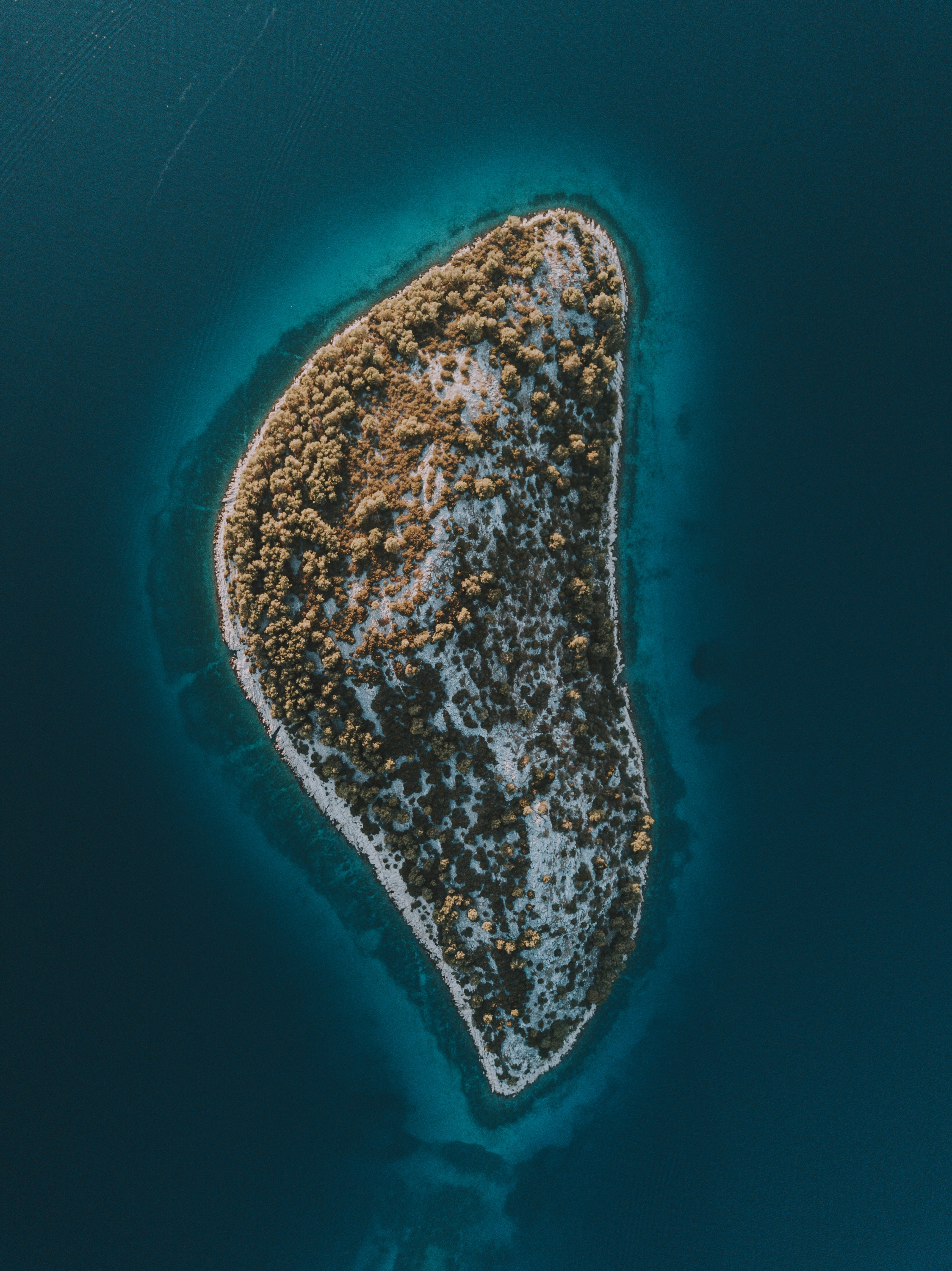 Otočić Ljutac from the air